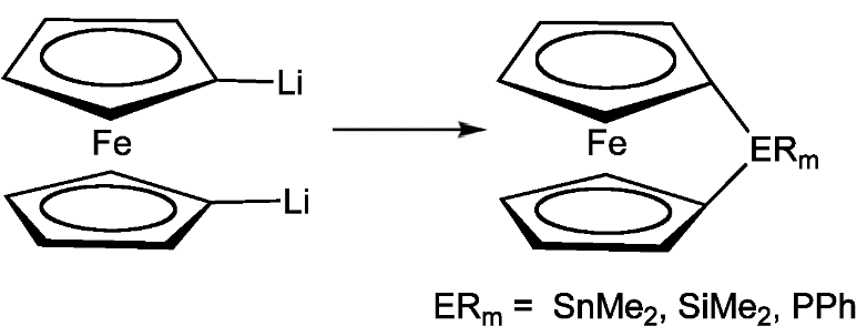 Synthesis of ansa-Ferrocenes